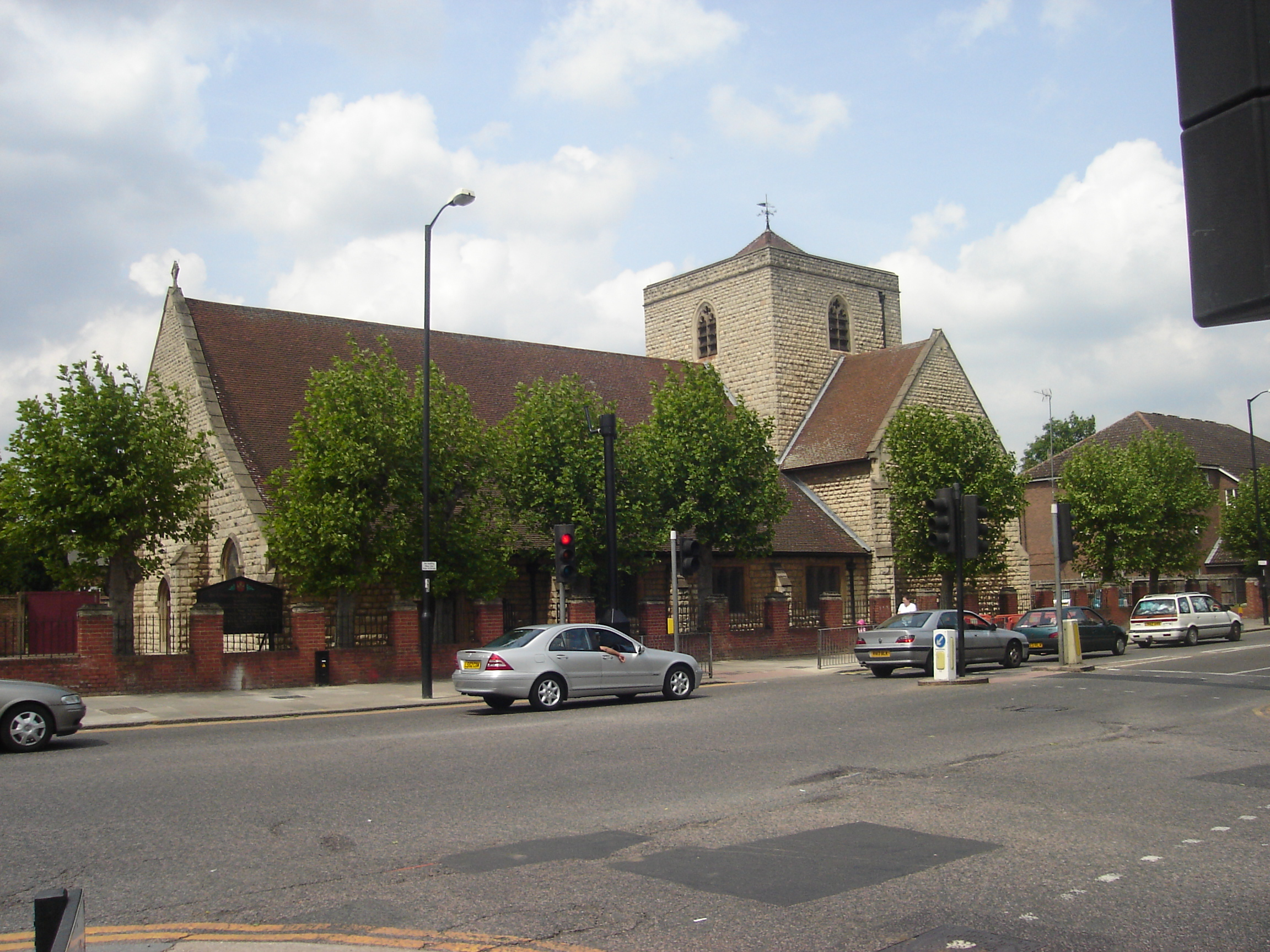 Picture of St Edmunds Church Edmonton